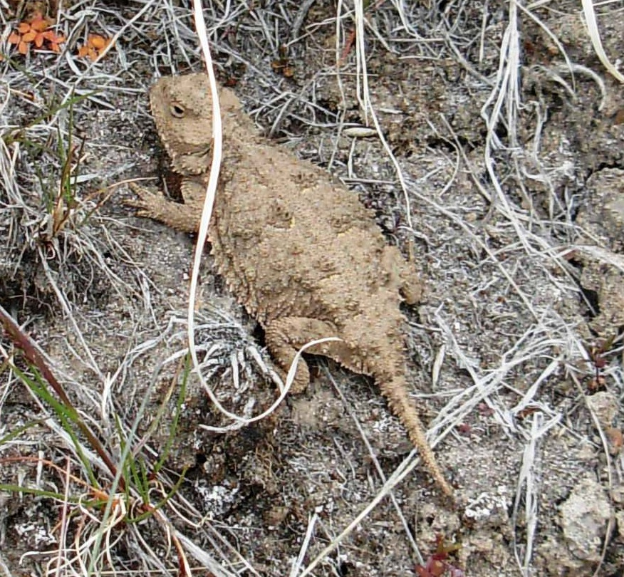 Short-Horned lizard